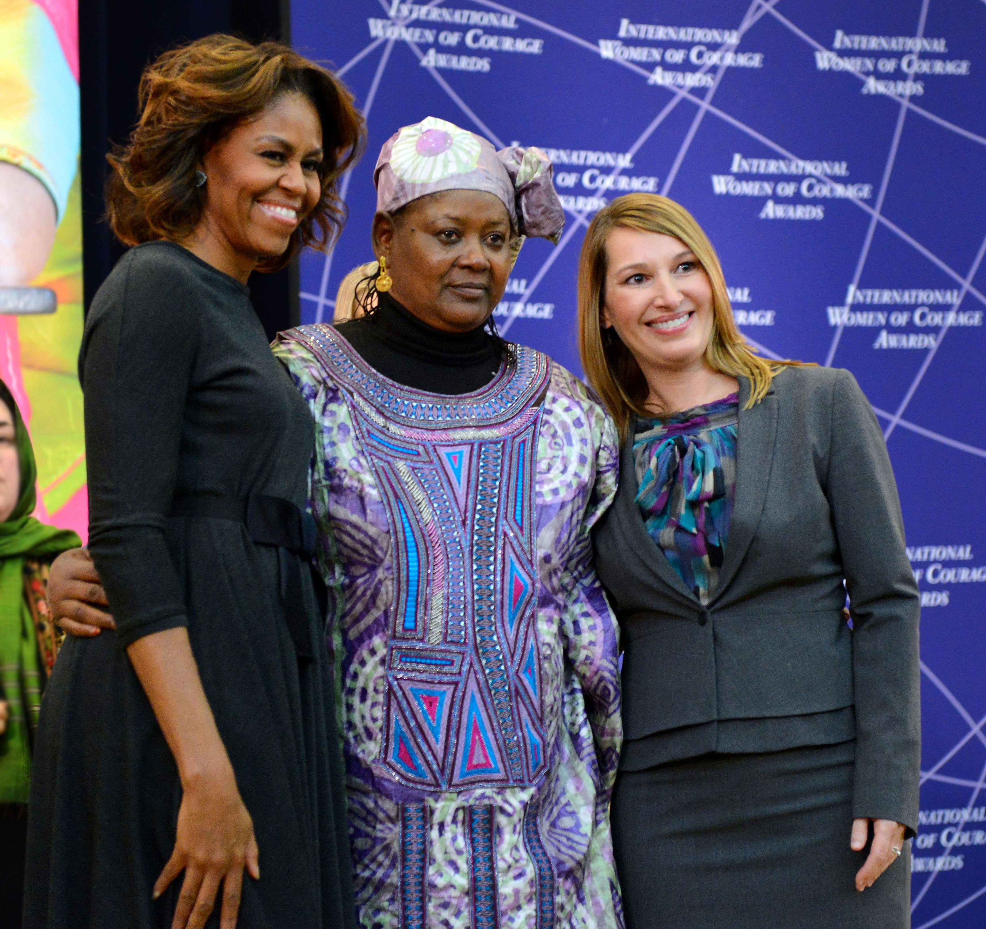 First Lady Michelle Obama and Deputy Secretary Higginbottom pose for a photo with 2014 Secretary of State’s International Women of Courage Award Winner Fatimata Touré, Community Activist and Executive Director of the Groupe de Recherche, de’Etude, de Formation Femme-Action in Mali, at the U.S. Department of State in Washington, D.C., on March 4, 2014. [State Department photo/ Public Domain]